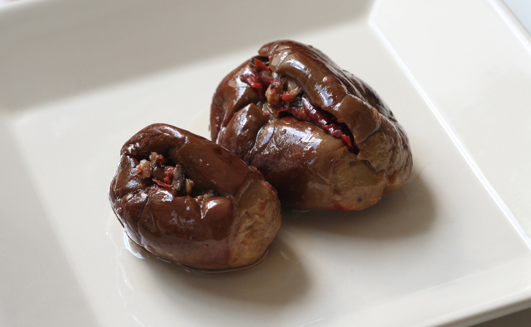 two pieces of makdous